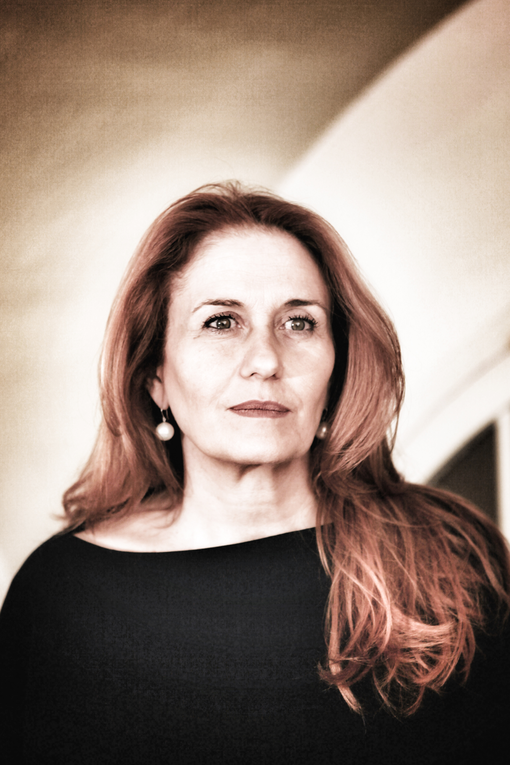 Monica Maggioni